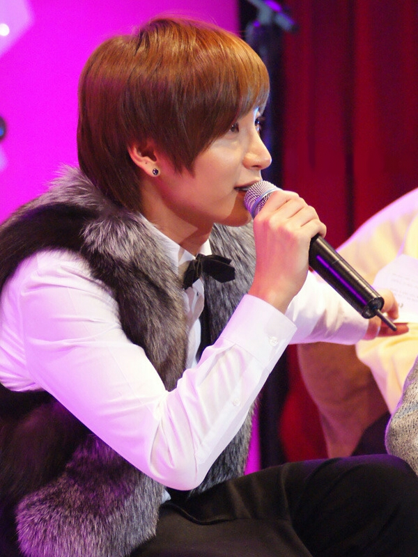 Picture of Leeteuk from Super Junior during Kiss The Radio public broadcast